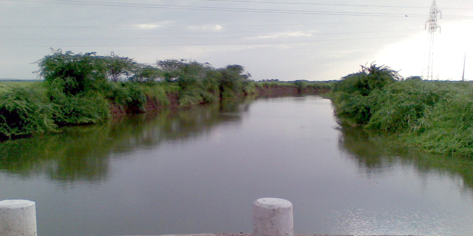 River Kalubhar entering Bhaal Region of Gujarat. Pic taken from bridge near Chogath Village.